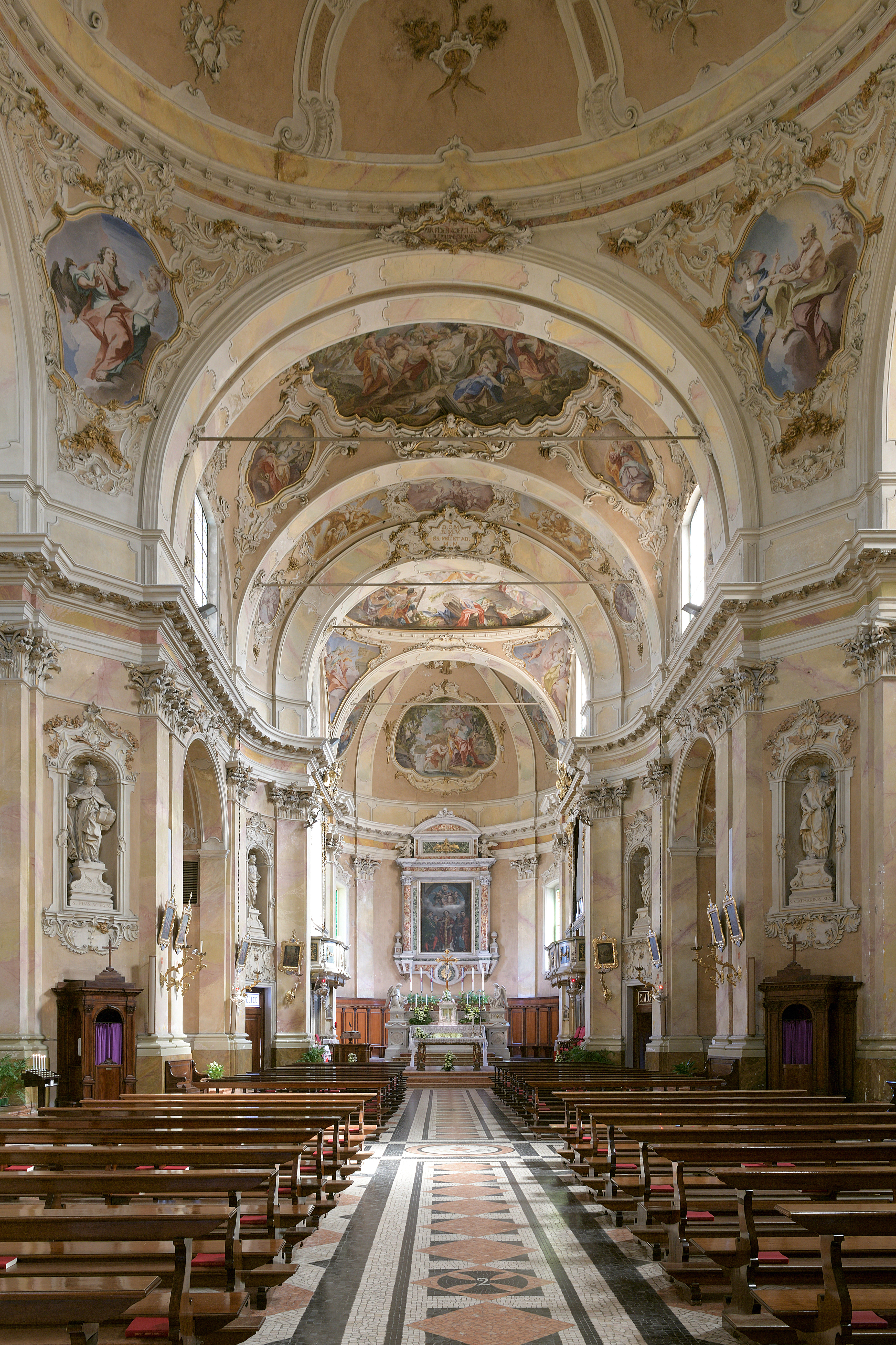 Internal view of the parish church of San Felice del Benaco on lake Garda.